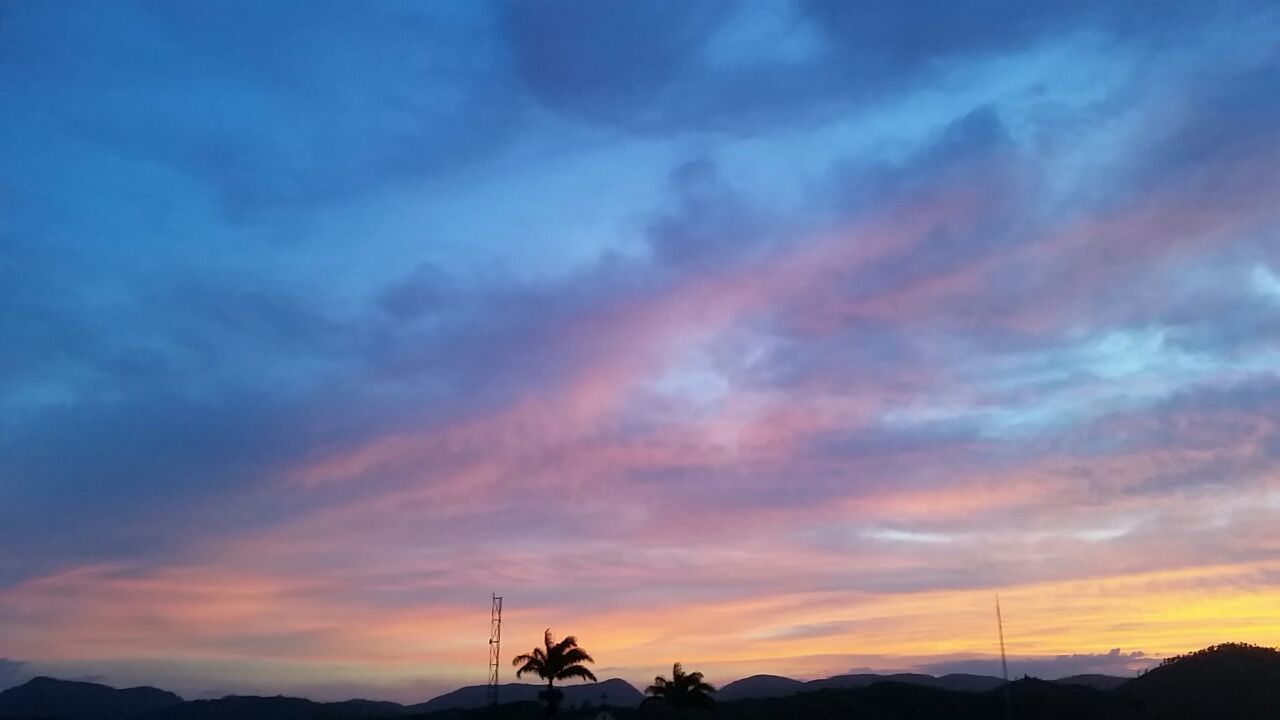 Pôr do Sol em Palmácia